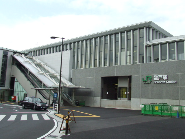 Station building of Ikuta Wooded Area Exit, JR East Noborito Station